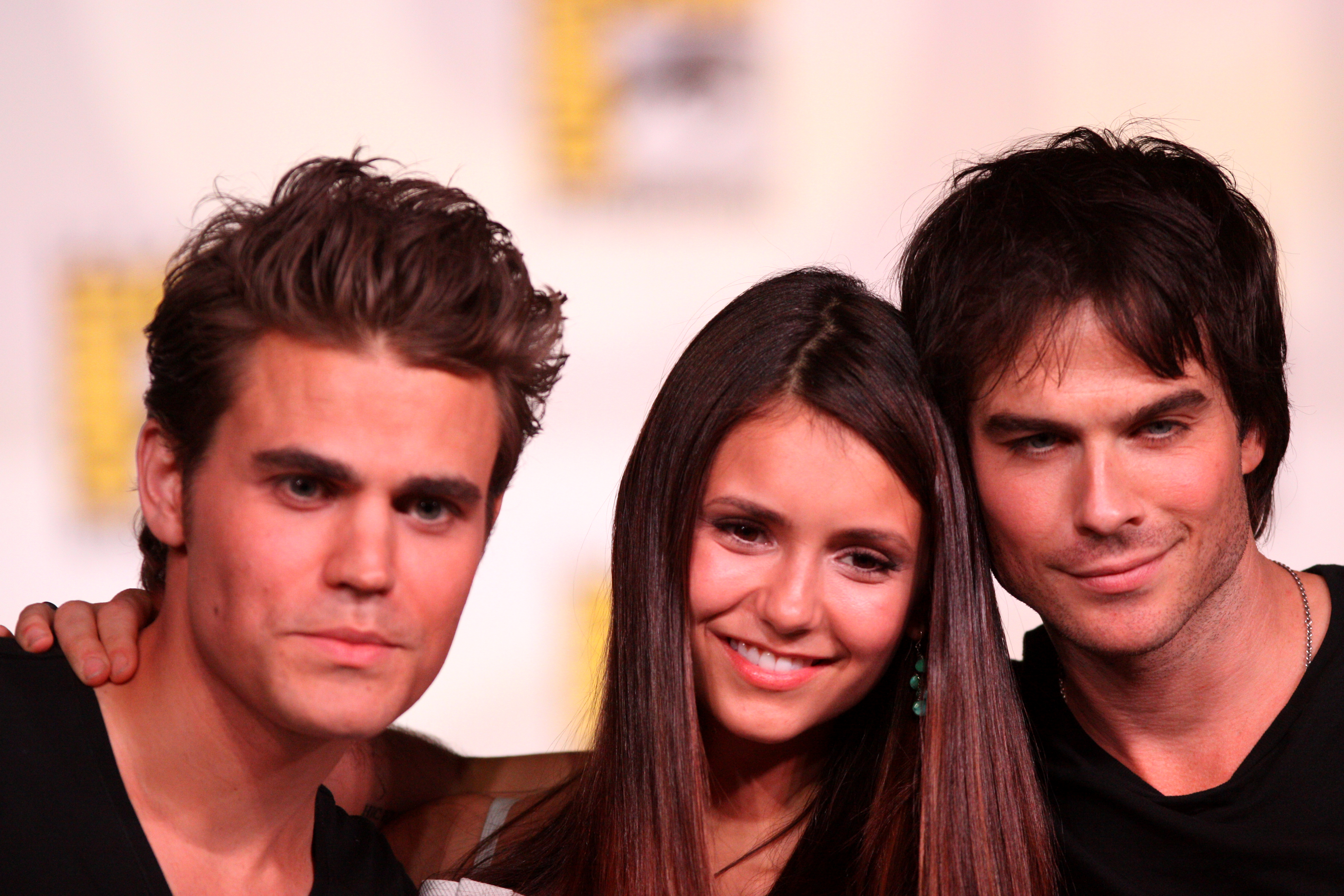 Paul Wesley, Nina Dobrev and Ian Somerhalder at 2012 Comic-Con International.